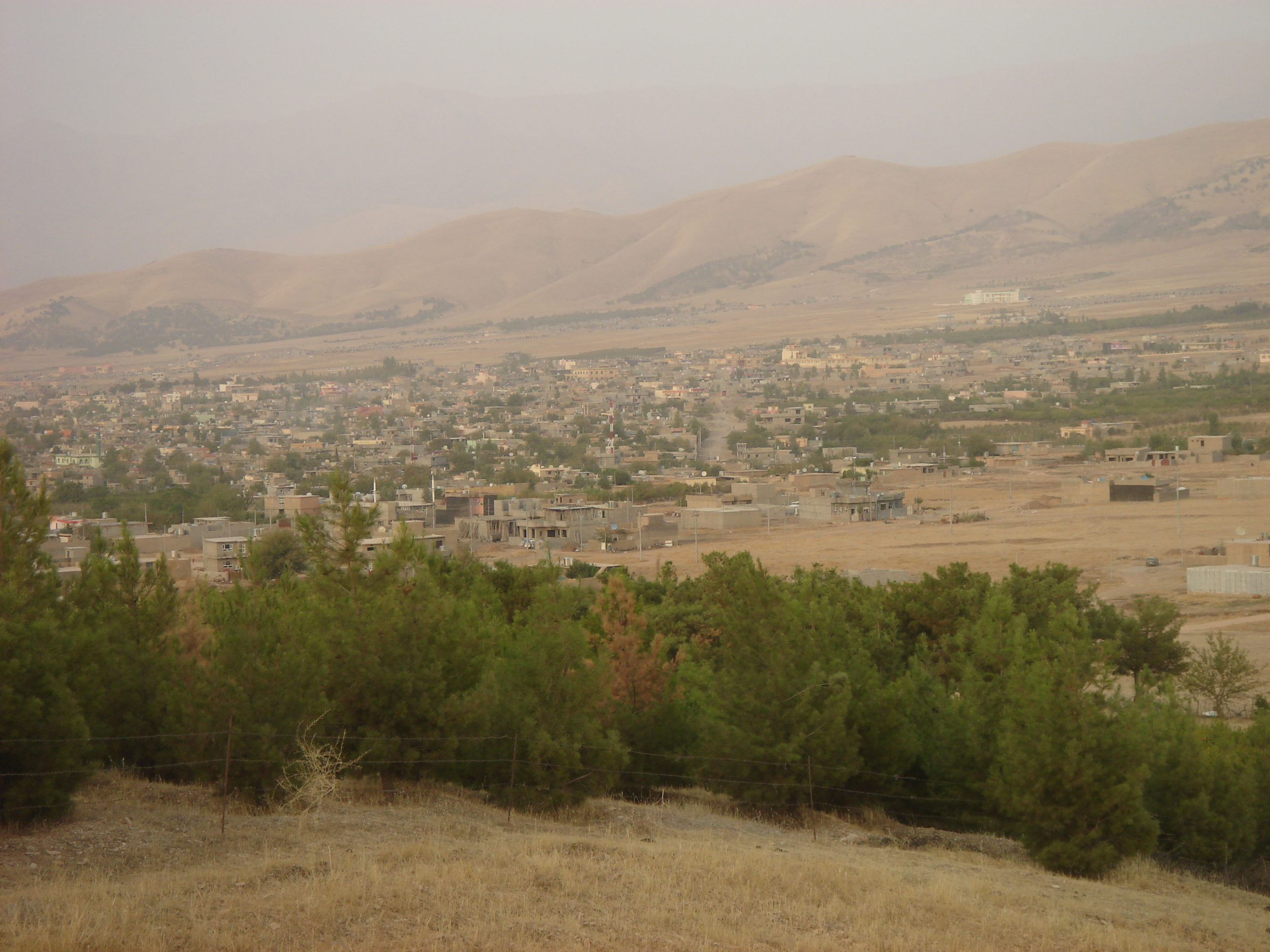 Halabja